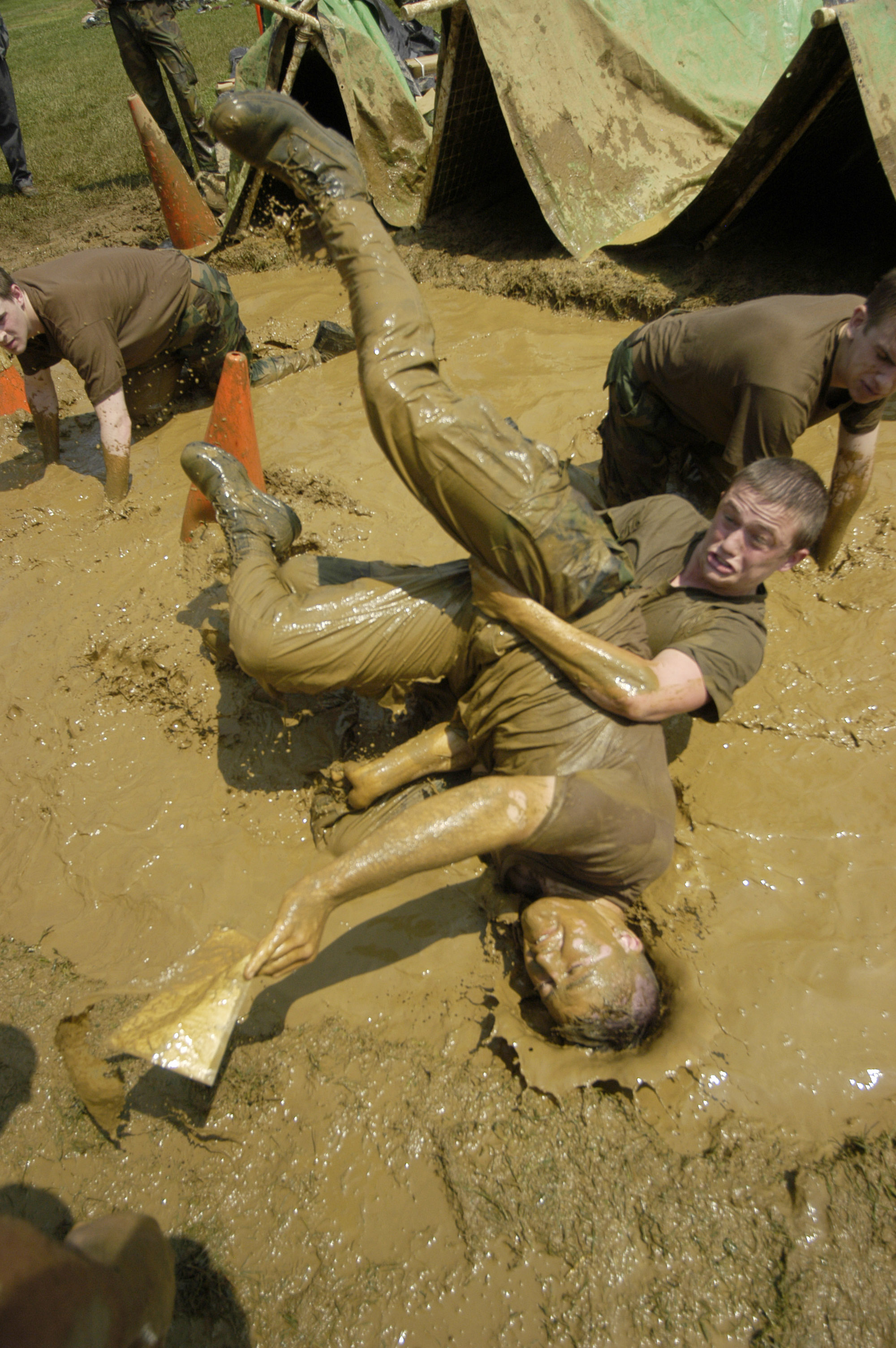 U.S. Naval Academy (May 18, 2004) - Midshipmen wrestle in a mud pit to recover a photograph as part of the competition in Sea Trials. The "capstone" event places fourth-class midshipmen in a physically and mentally demanding environment that instills in them the values of good leadership, teamwork, and perseverance. Sea Trials allows the fourth class to participate in a memorable and worthwhile event that teaches them much about their own abilities and limitations as well as the advantages of working as a team. U.S. Navy photo by Photographer's Mate 2nd Class Damon J. Moritz. (RELEASED)